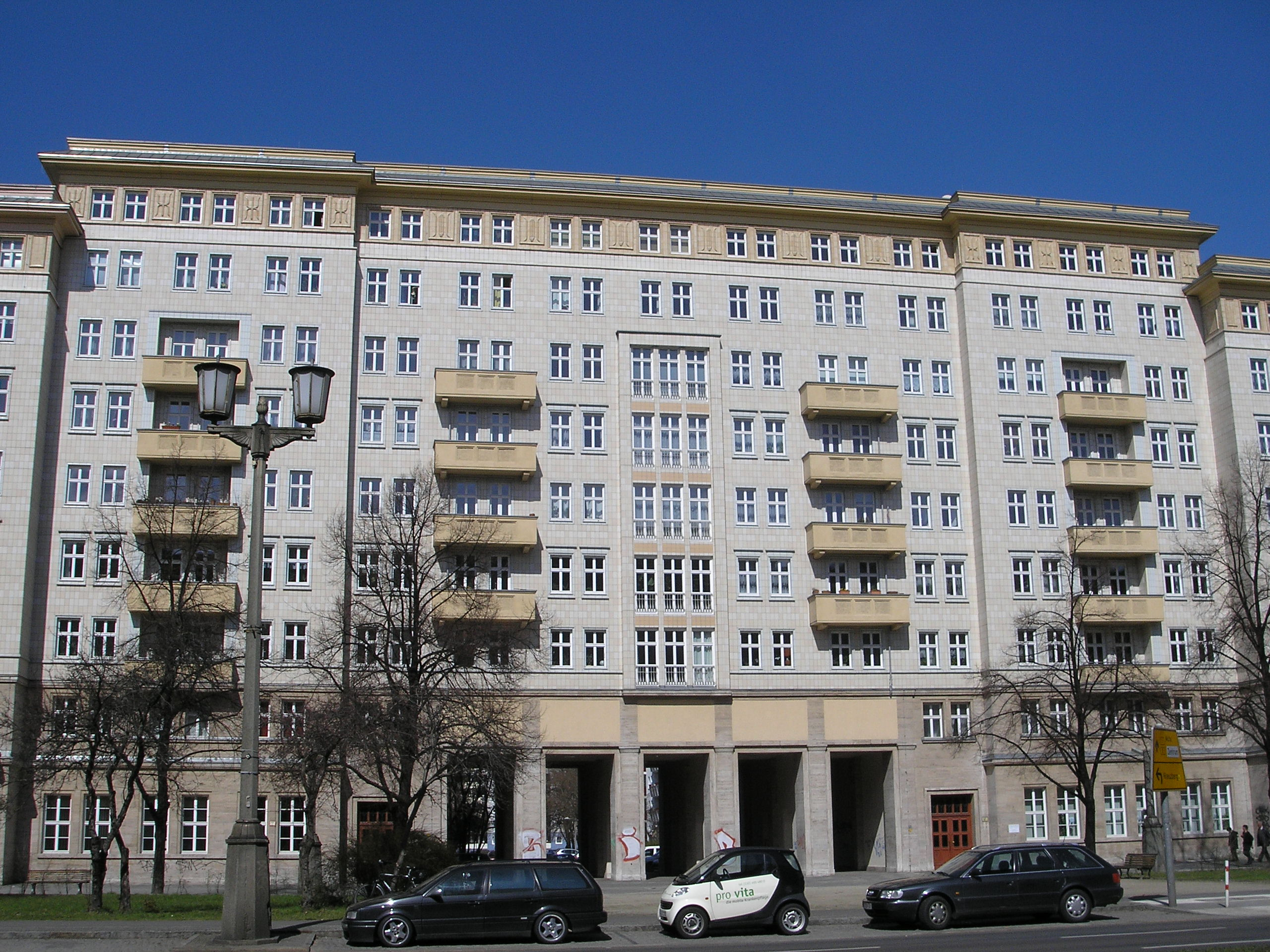 View on Block B North on Karl-Marx-Allee in Berlin. Architect Egon Hartmann. Constructed in 1952.